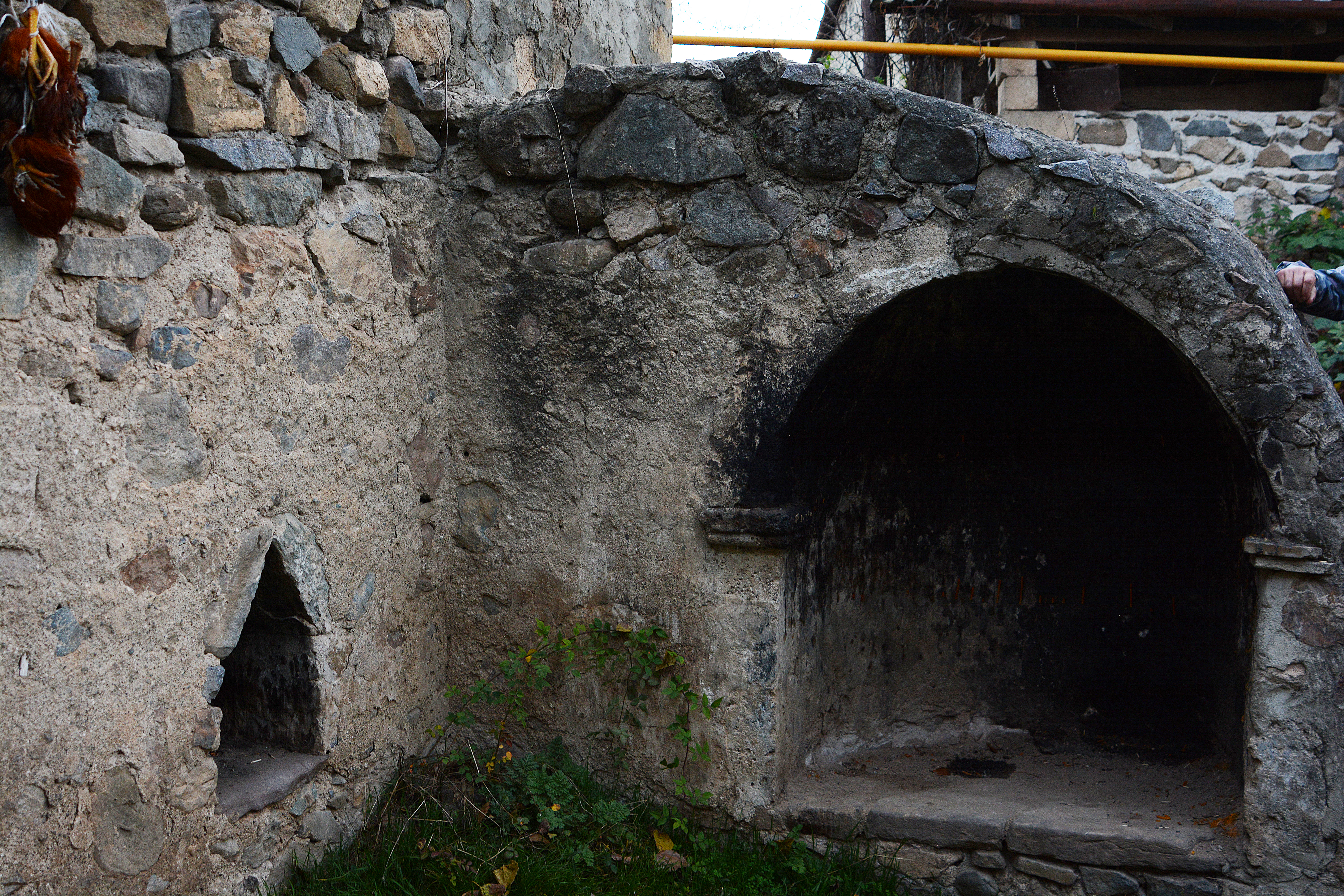 Holly place, Patara